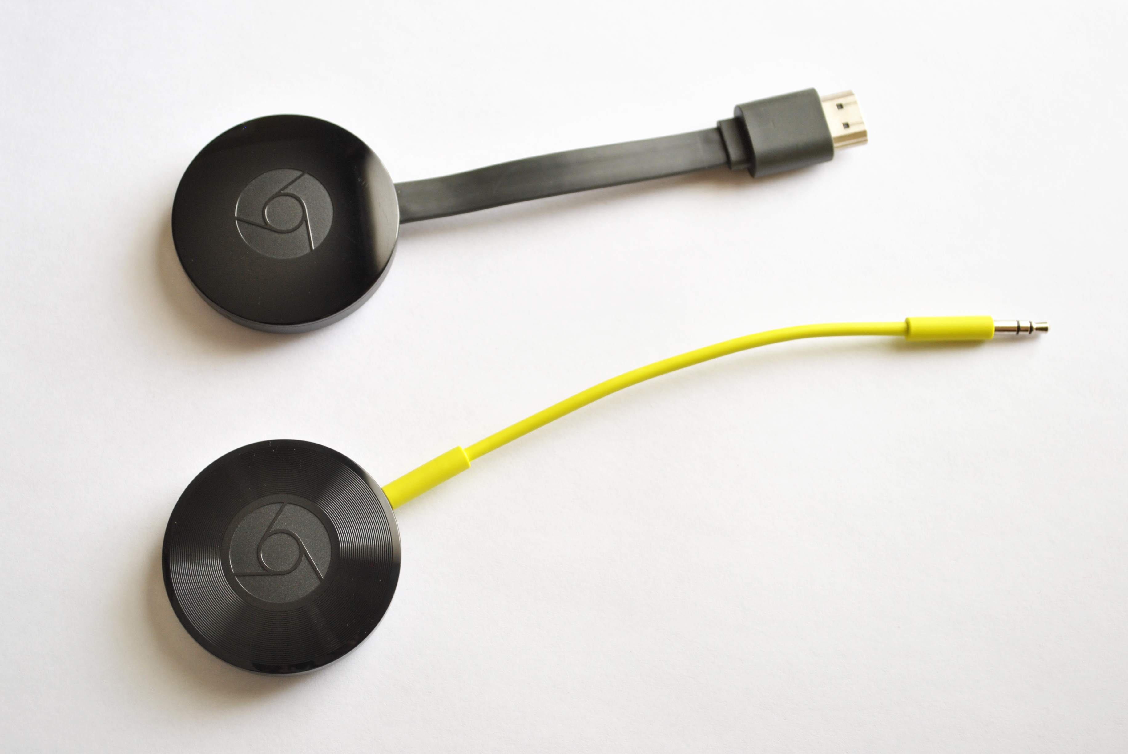 Google's Chromecast (2nd generation) and Chromecast Audio digital media streamers